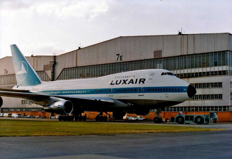 Luxair B747SP LX-LGX at Jan Smuts Airport, Johannesburg